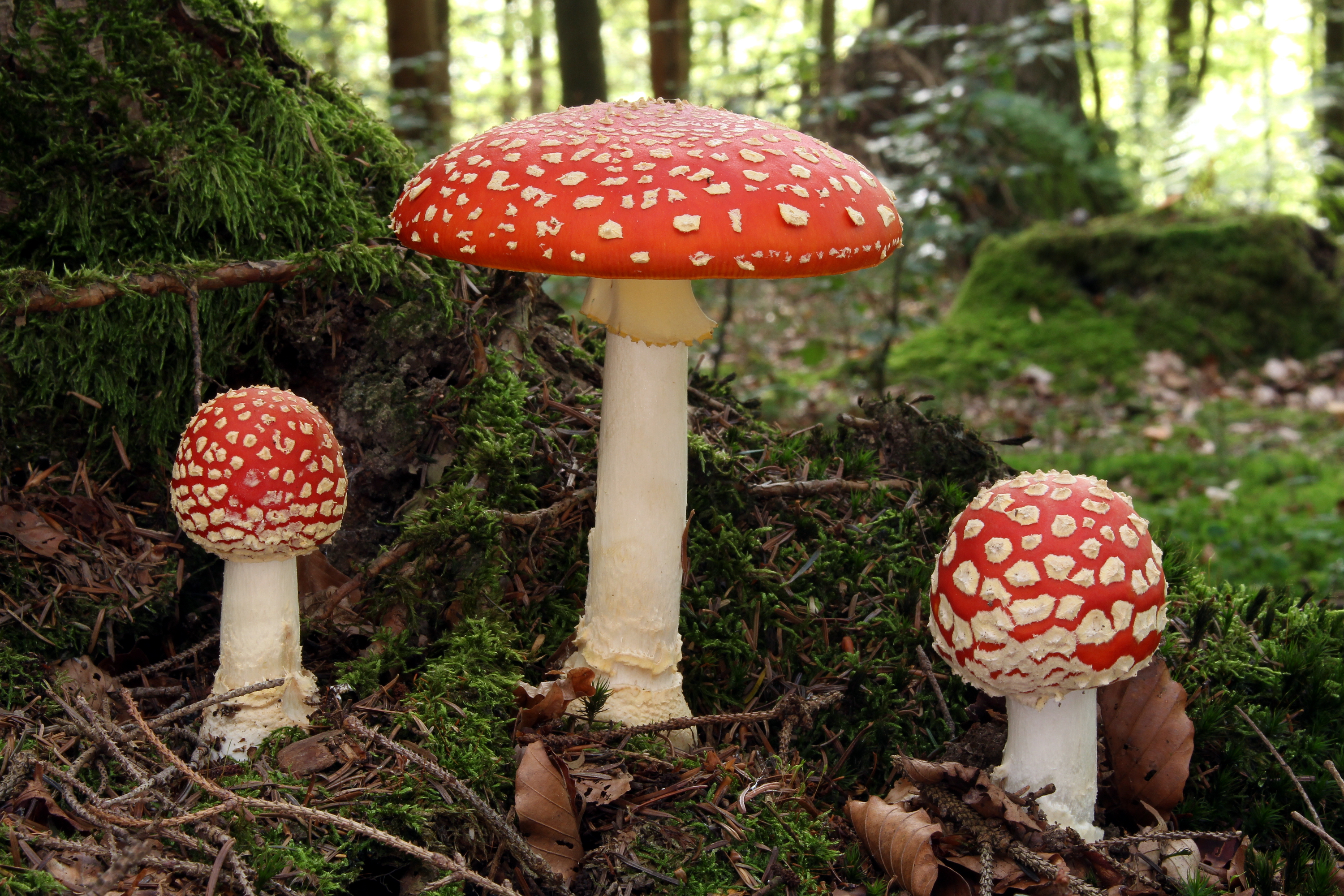 Fly Agaric or Fly Amanita, Amanita muscaria, Family: Amanitaceae, Location: Germany, Erbach, Ringingen